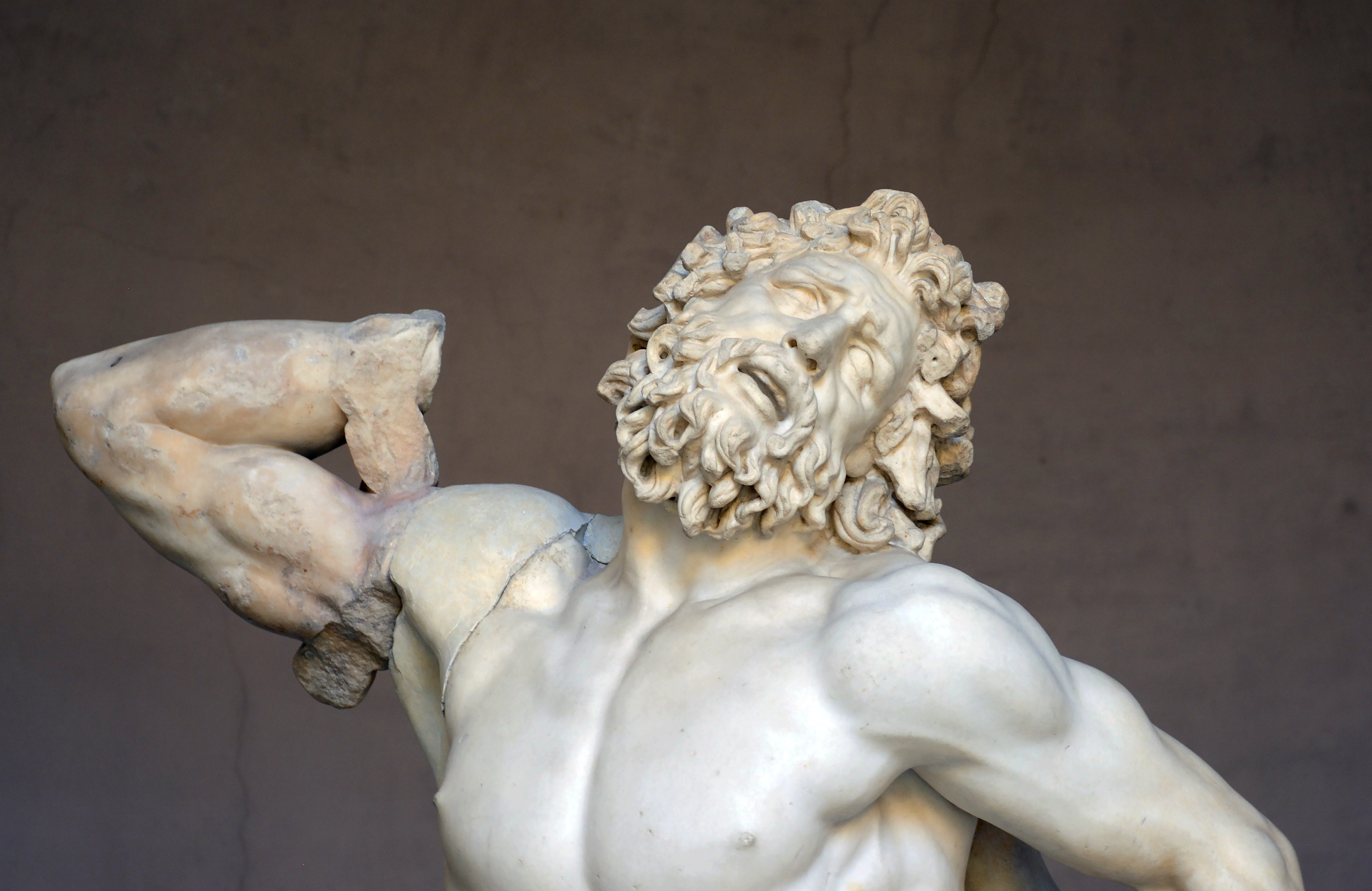 Face of Laocoon in Vatican